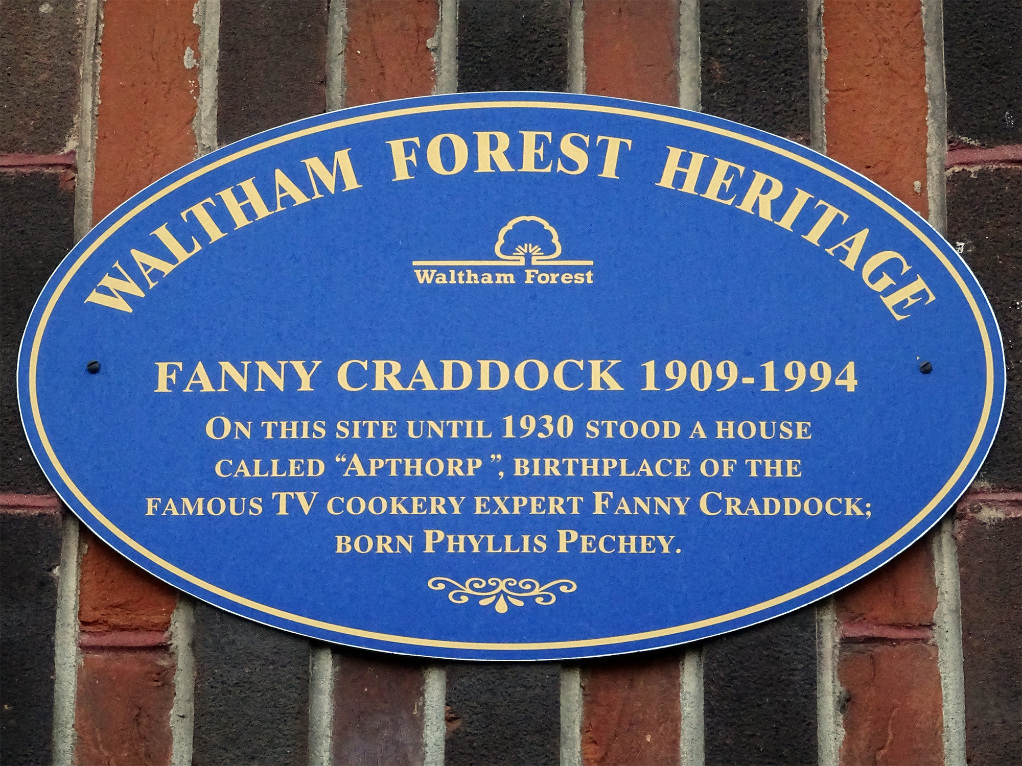 Blue plaque erected by Waltham Forest Council as part of the Waltham Forest Heritage scheme at Fairwood Court, 33 Fairlop Road, Leytonstone, London E11 1BJ.[Note: her last name is spelled incorrectly on the plaque, should be 'Cradock' with just 1 d.